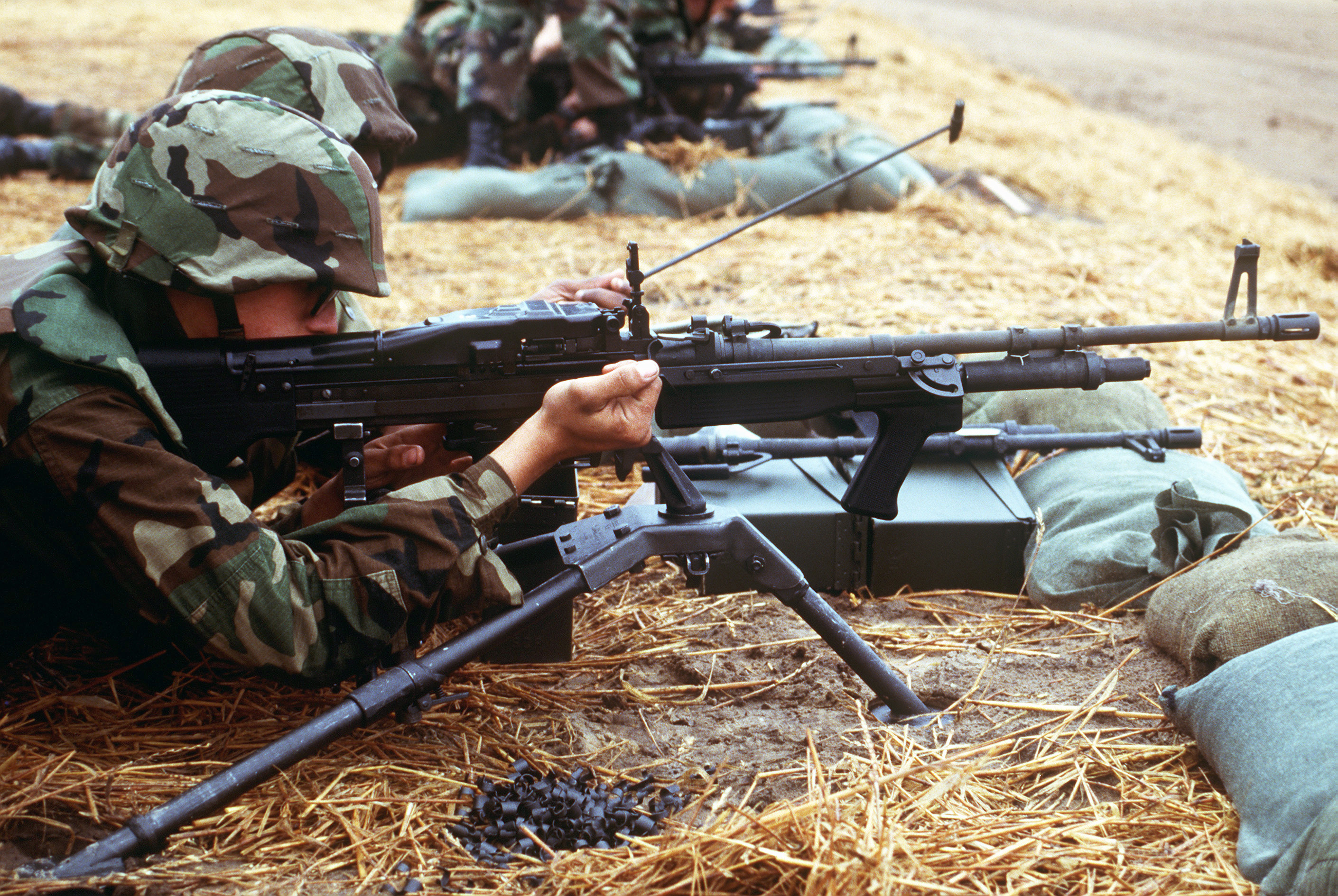 A recruit pulls back the bolt of an M60 (M60E3, maybe) Maremont lightweight machine gun before firing it during a weapons familiarization class. The weapon is mounted on a tripod with a traversing and elevation mechanism attached.